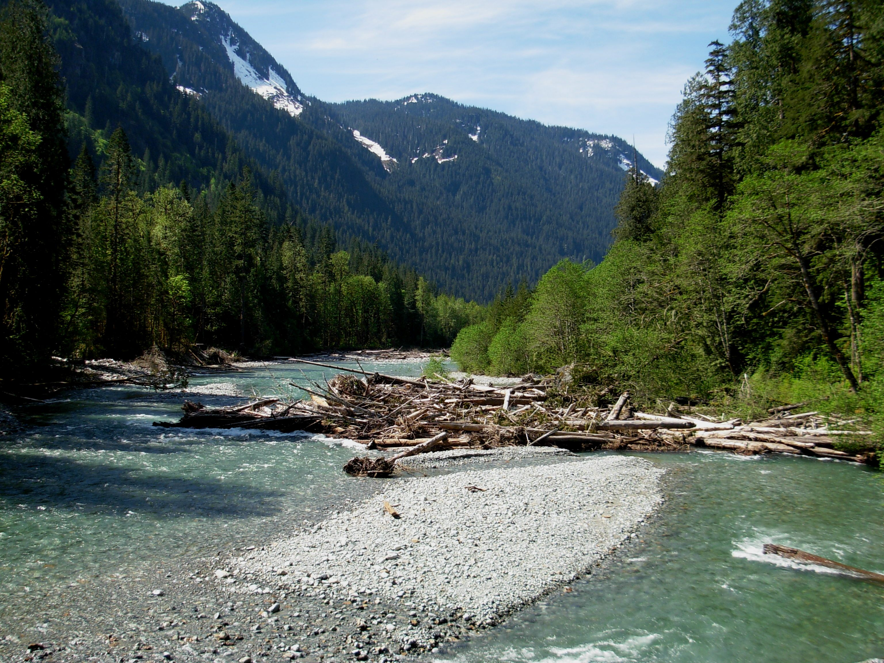 Gravel bar on the Baker River, North Cascades National Park, Washington